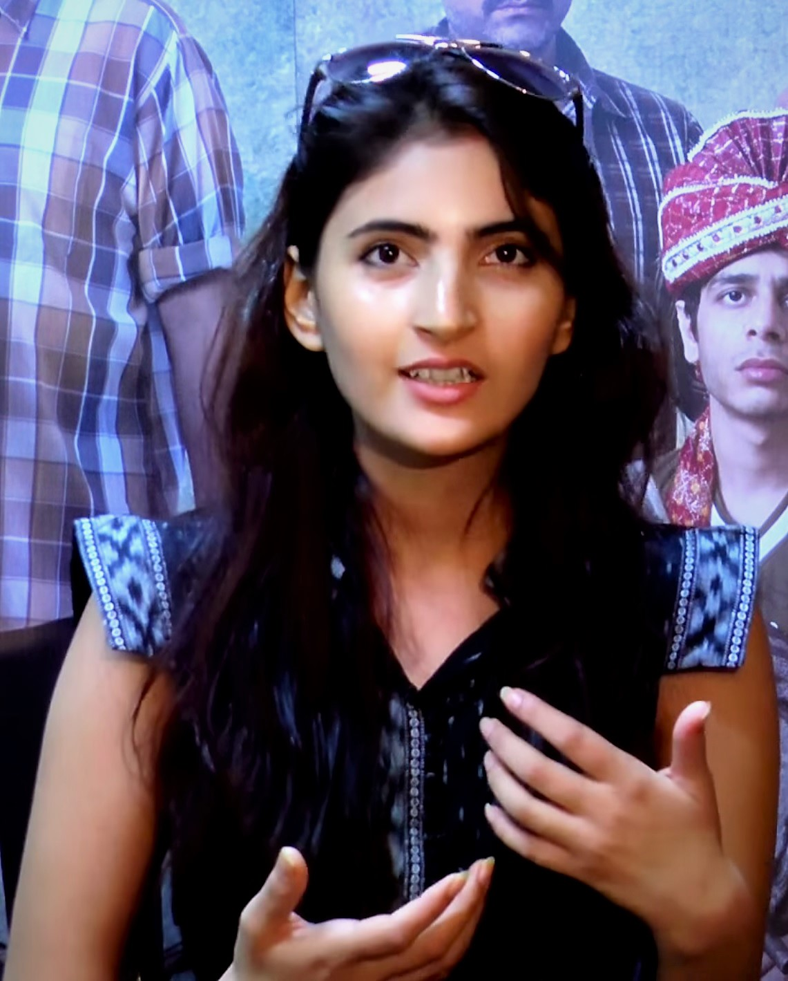 Shocking! Shivani Raghuvanshi Not Excited About Her Movie Release 'Titli' | SpotboyE